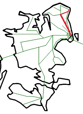 Map of railways on Zealand (Sjælland) in Denmark with the state railway Nordbanen between Copenhagen and Hillerød in red as well as the part between Hillerød and Helsingør which now belong to Hovedstadens Lokalbaner.